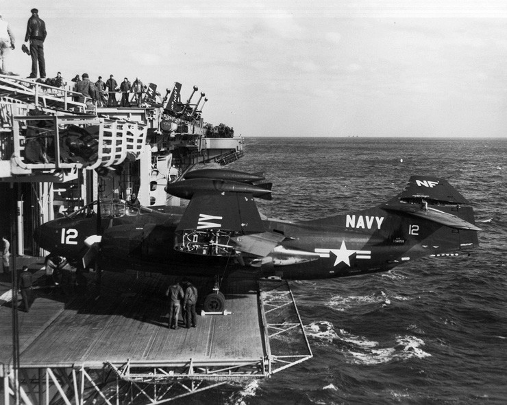 A U.S. Navy North American AJ-2 Savage of Composite Squadron 6 (VC-6) Det. 1 "Fleurs" on the (port) deck edge elevator of the aircraft carrier USS Midway (CVA-41) in 1954. From this angle is appears that the aircraft almost would not fit in the hangar.